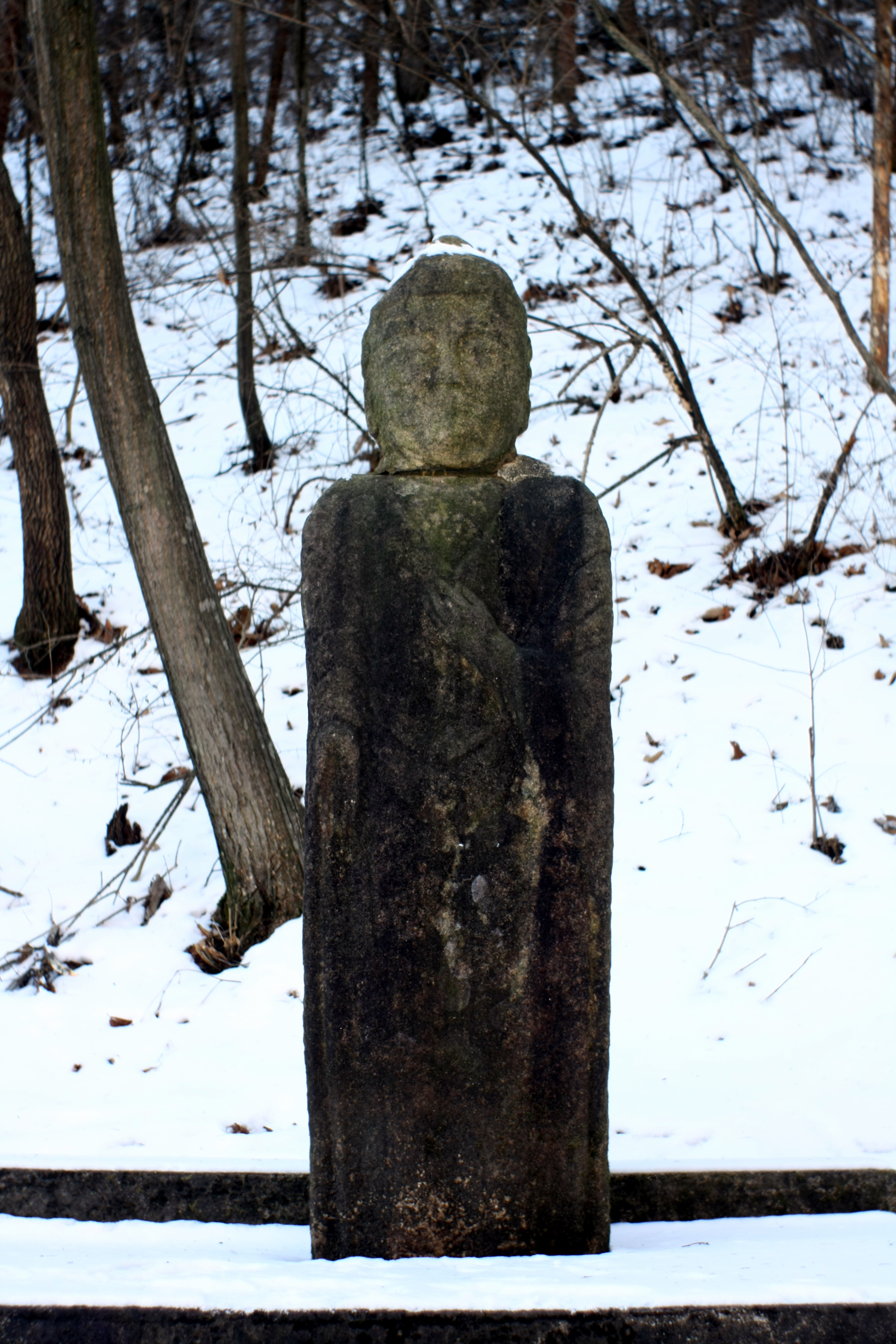 Stone Standing Buddha at Gangcheon-ri, Chungju in South Korea